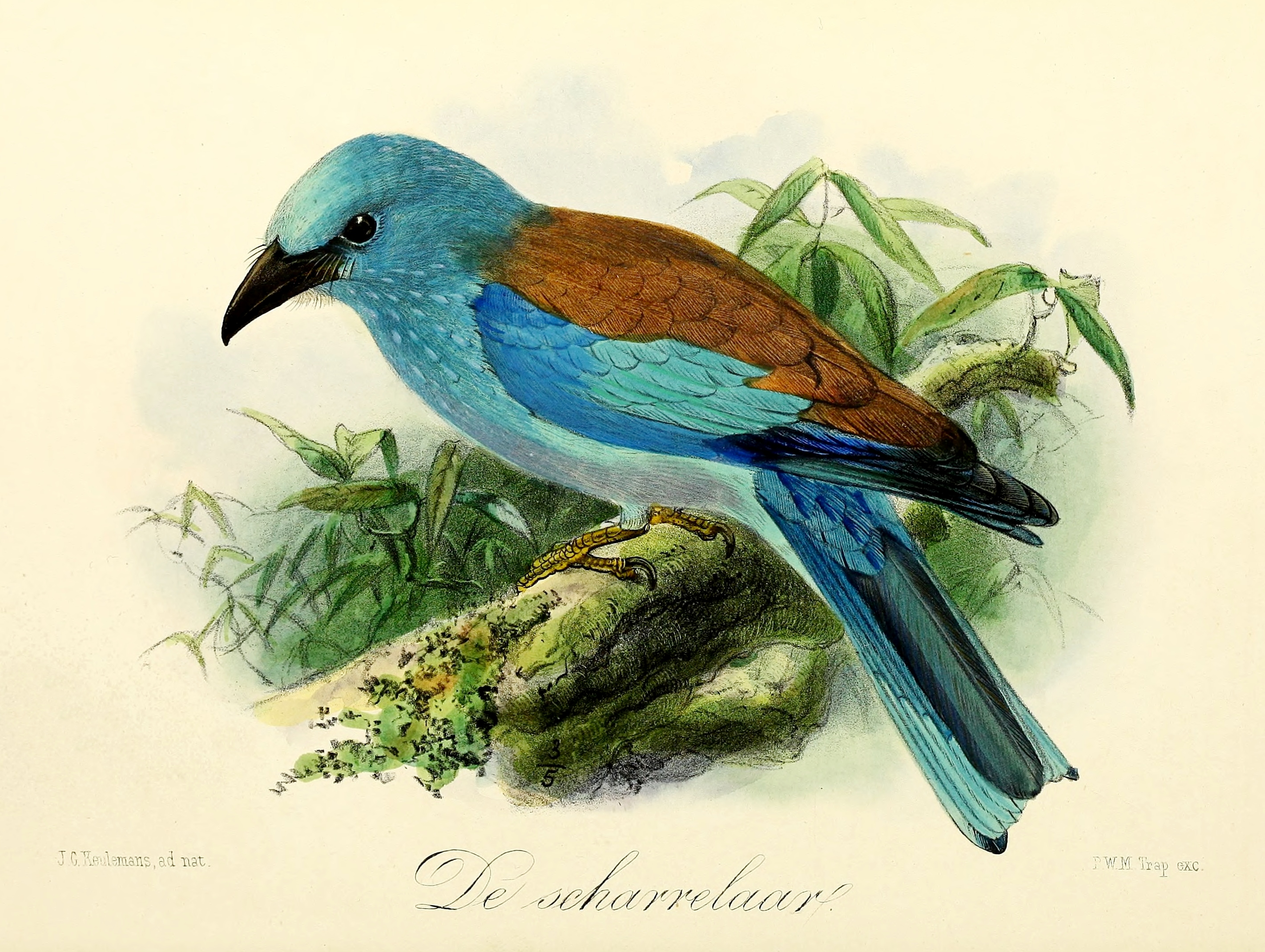 « Coracias garrula » = Coracias garrulus (European roller)